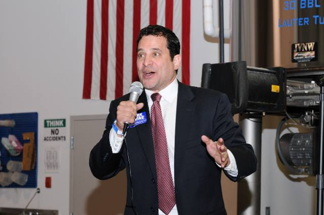 Mark Levine speaking at the Alexandria Democratic Committee 2014 straw poll.